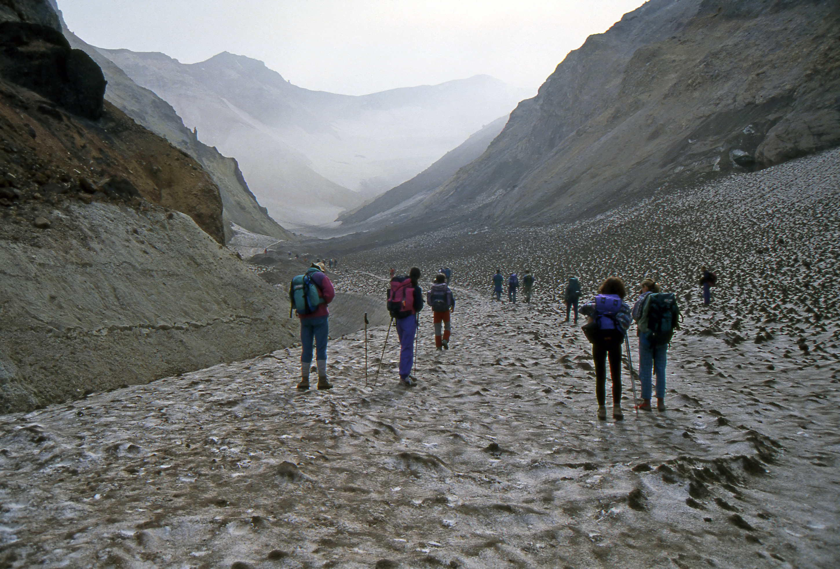 Mutnovsky Volcano - Kamchatka, Russian Federation